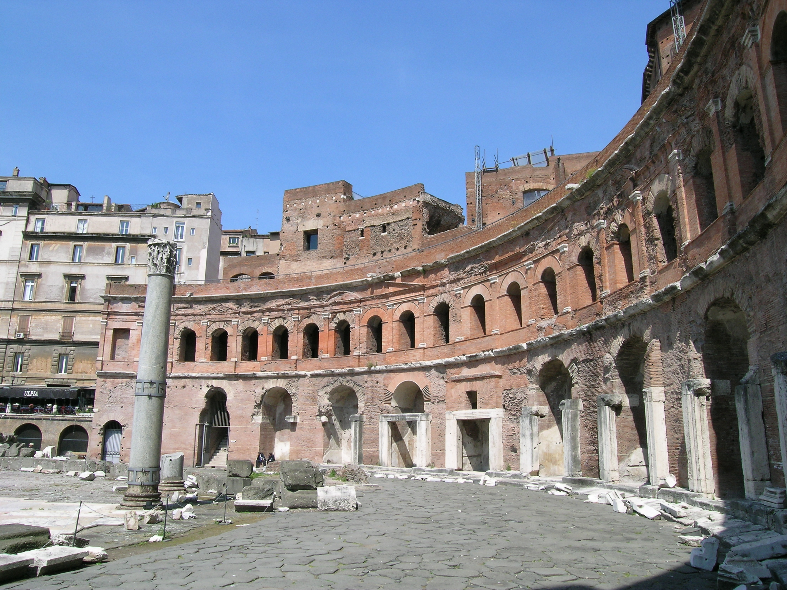 I made the photo and I release it to the public domain. Zello 18:44, 11 November 2006 (UTC)